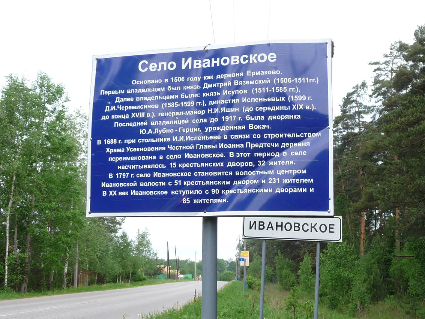 Information stand at the entrance to the village of Ivanovskoe with the history of the village. Chernogolovka, Moscow oblast, Russia